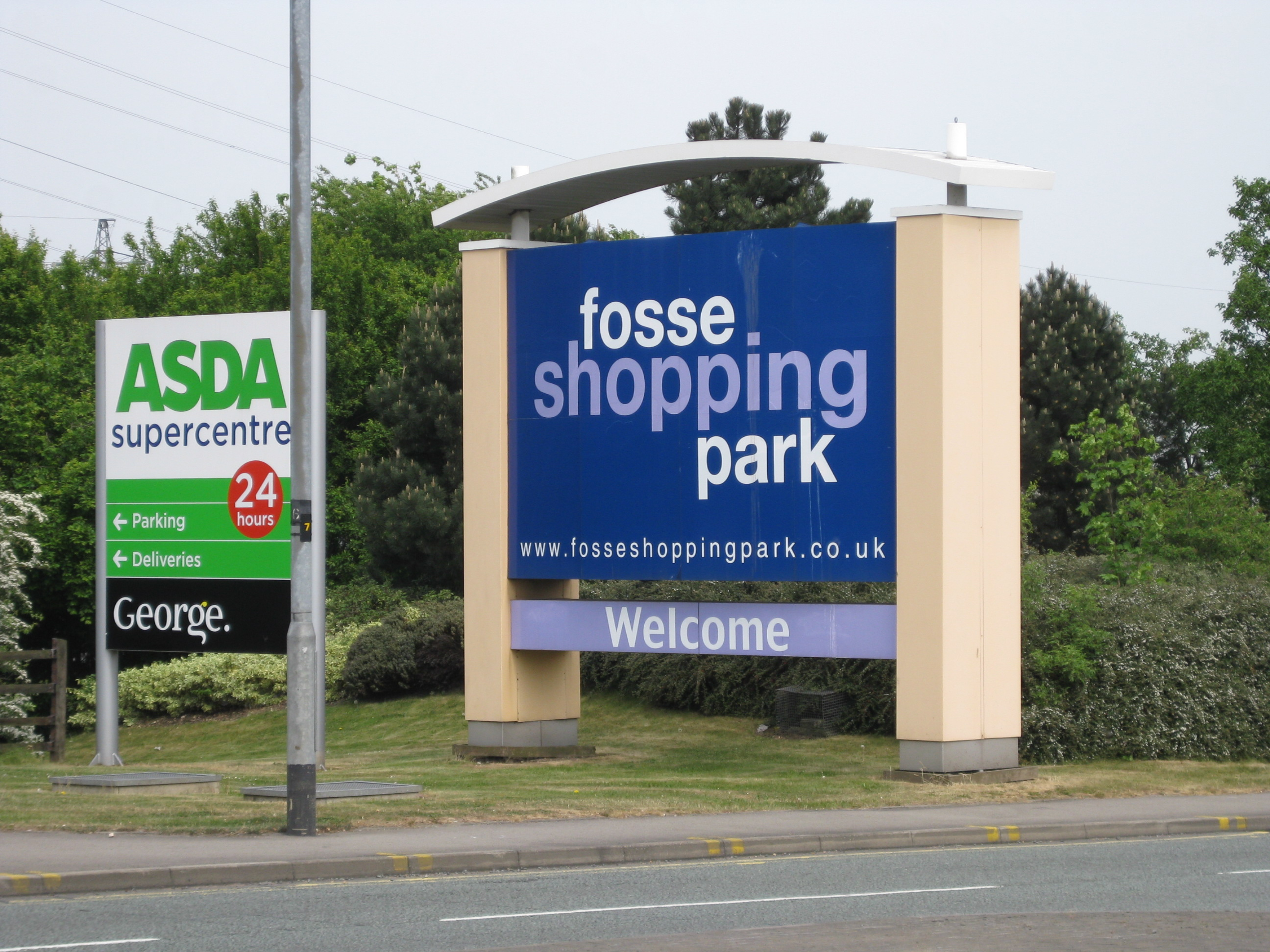 Signs for Fosse Shopping Park and Asda, Blaby District, Leicestershire, UK. 2011